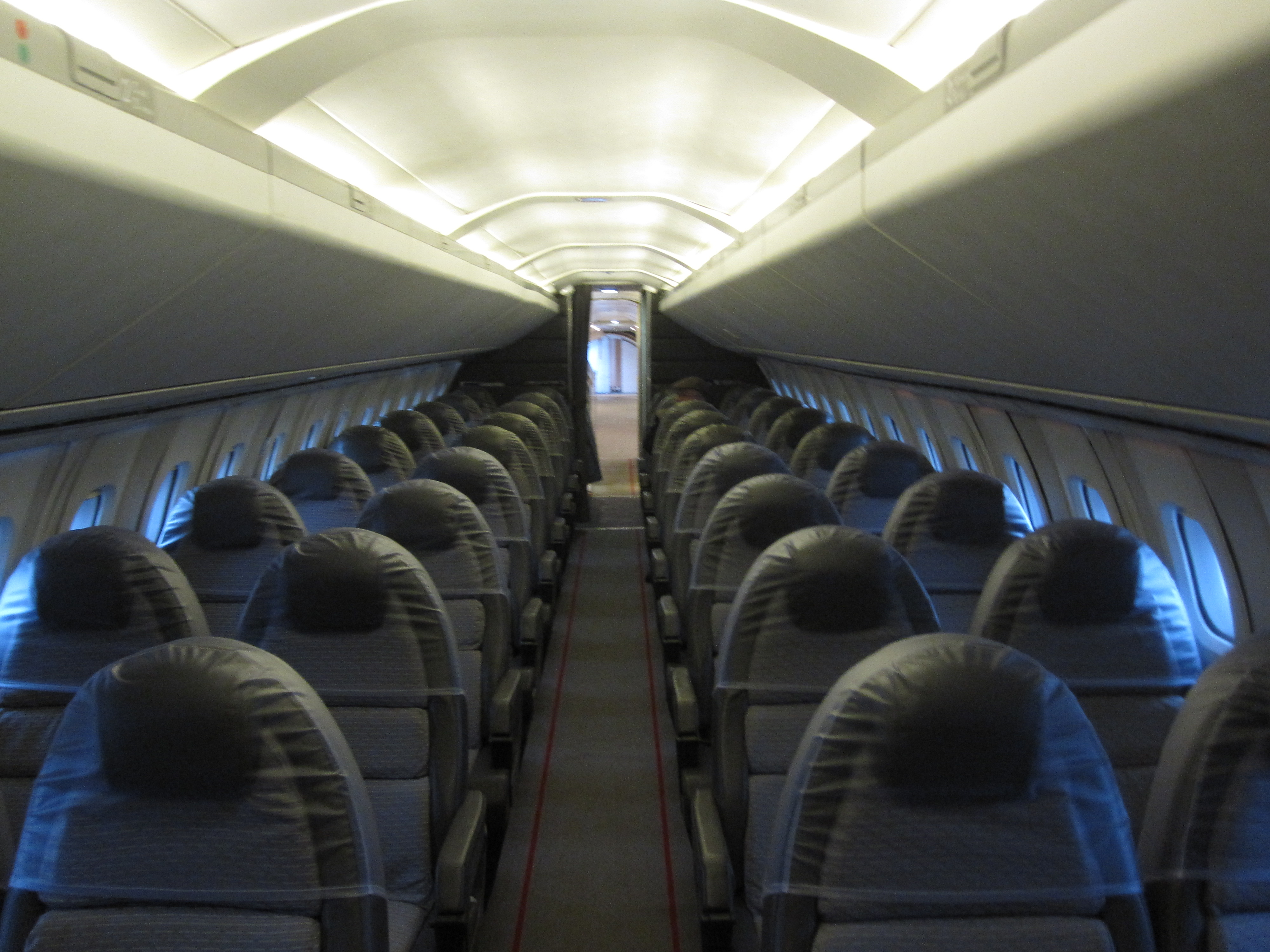 Interior of G-BBDG at Brooklands museum. Visitors can sit here and experience a "virtual" Concorde flight